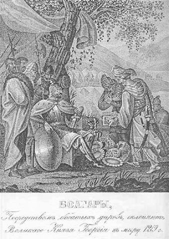 Bulgarians through the gifts of the Grand Prince Yuri incline towards peace, in 1219.